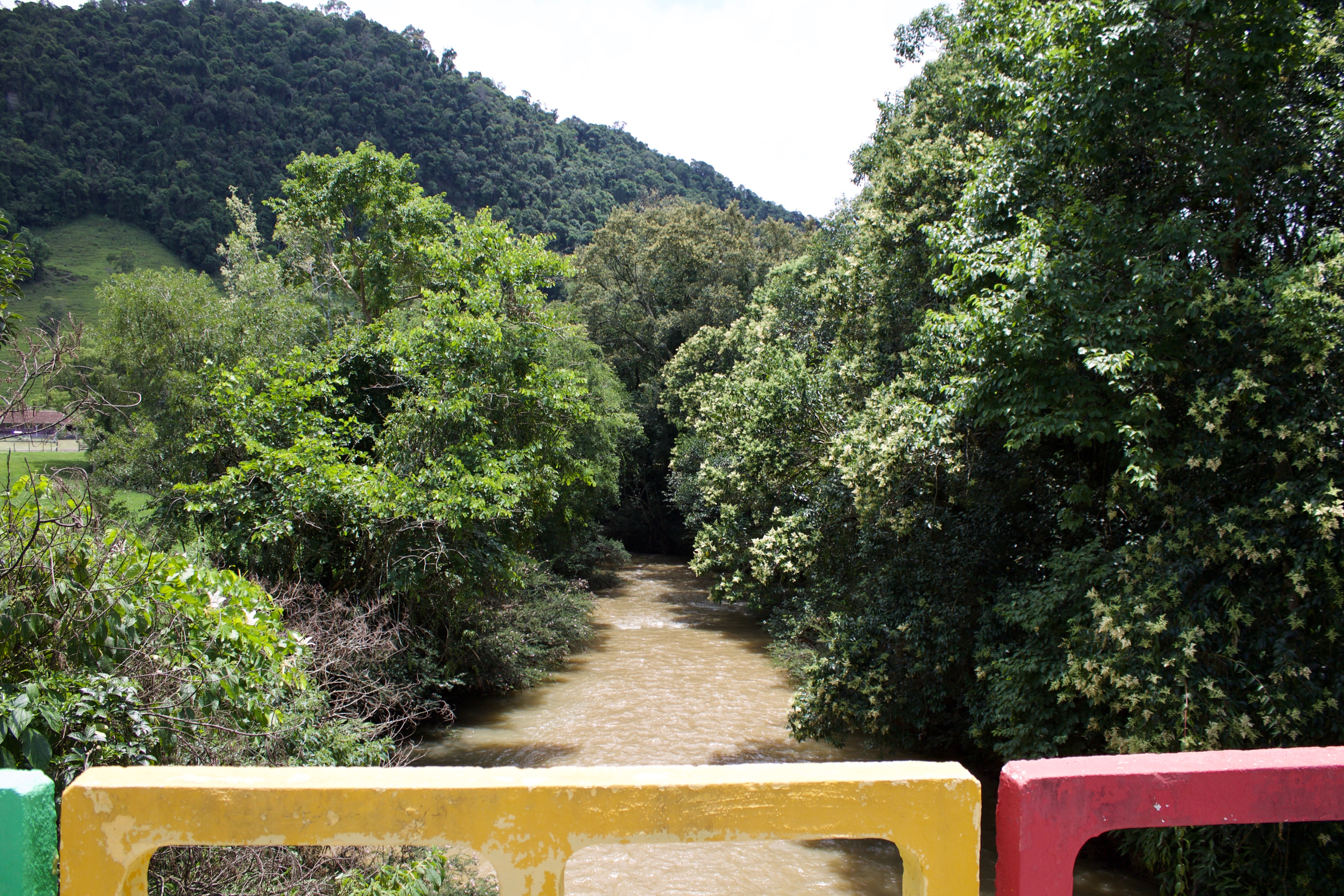 Alto Braço river seen from a bridge in the Leoberto Leal municipality.